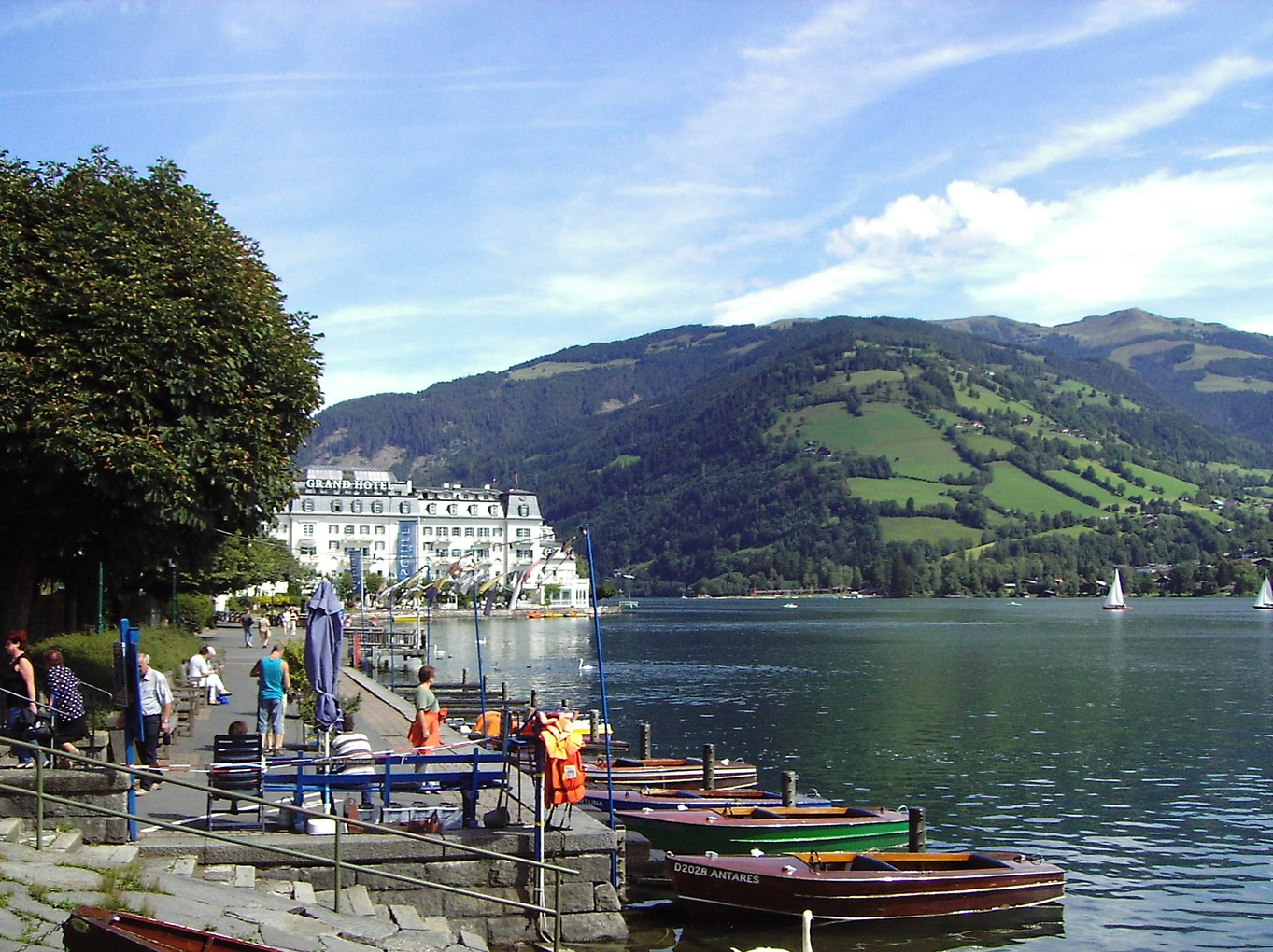 Part of the seasidewalk in Zell am See, Salzburger Land - Austria Schönwieskopf 1994m